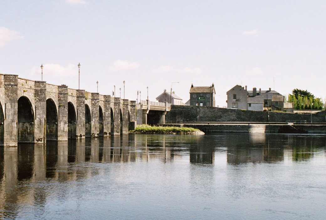 River Shannon and Shannonbridge, view from west bank of river